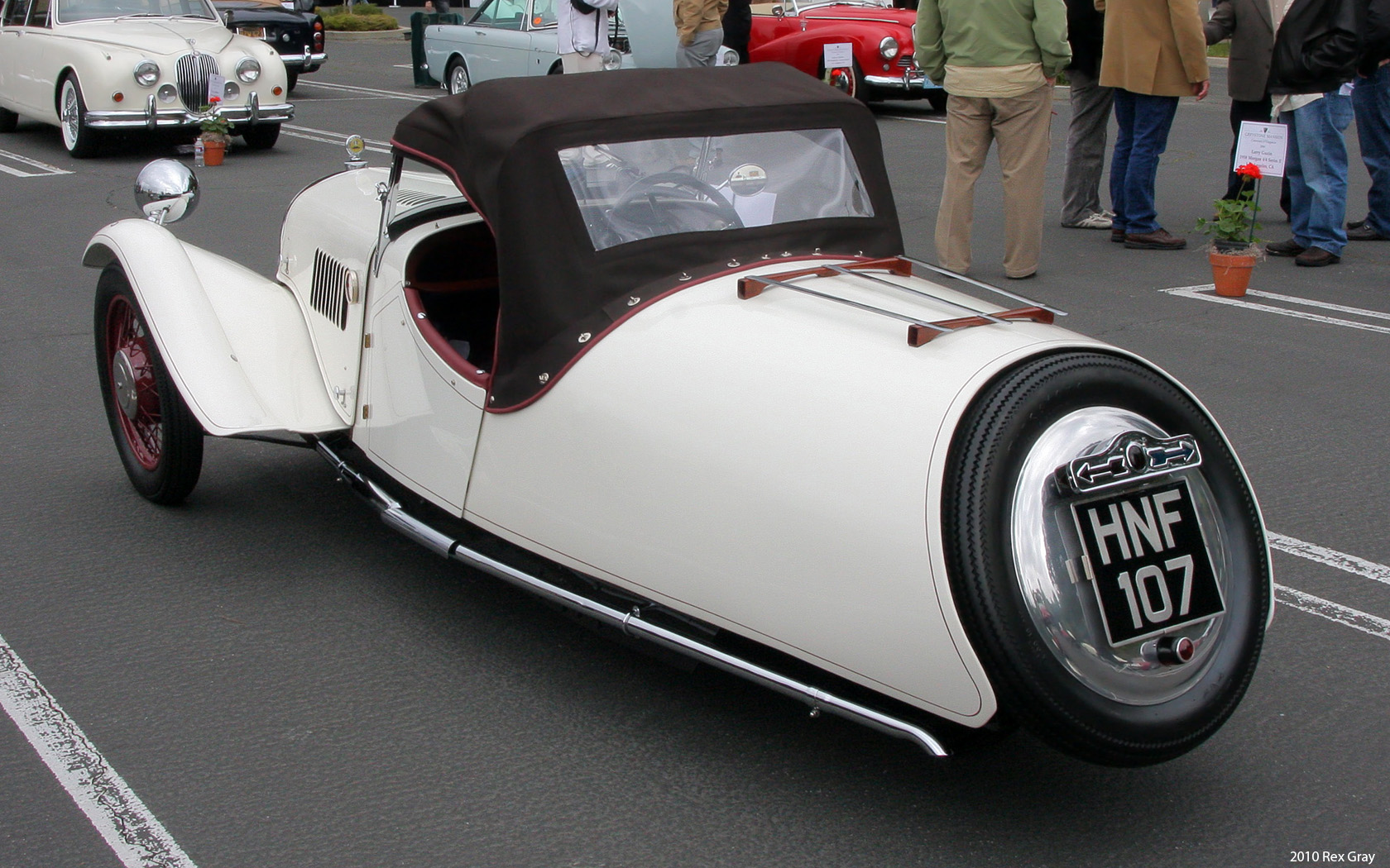 1947 Morgan F-Super Greystone Mansion Inaugural Concours d'Elegance, April 11, 2010